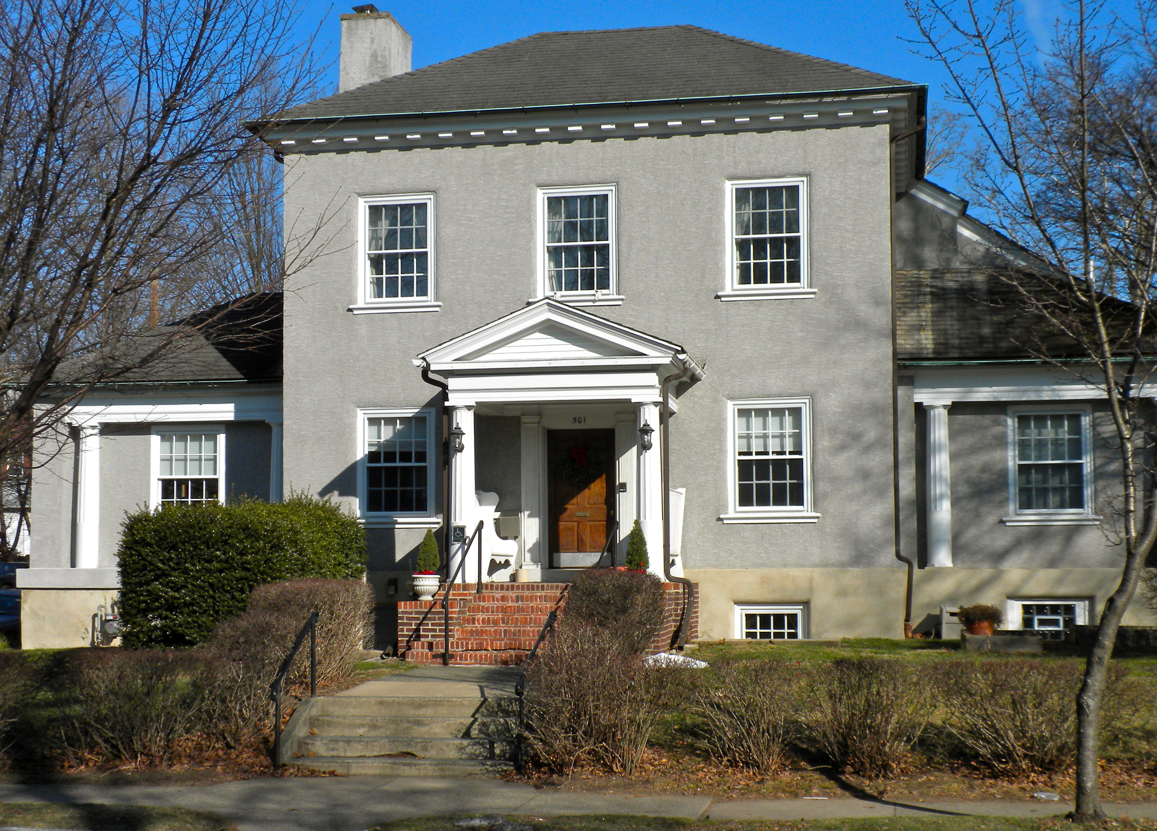 New Century Clubhouse, near West Chester University, on NRHP since February 24, 1983. At High and Lacey Streets, West Chester, Chester County, PA. New Century Club was a Women's Group. The building is now being used by a Unitarian Church.